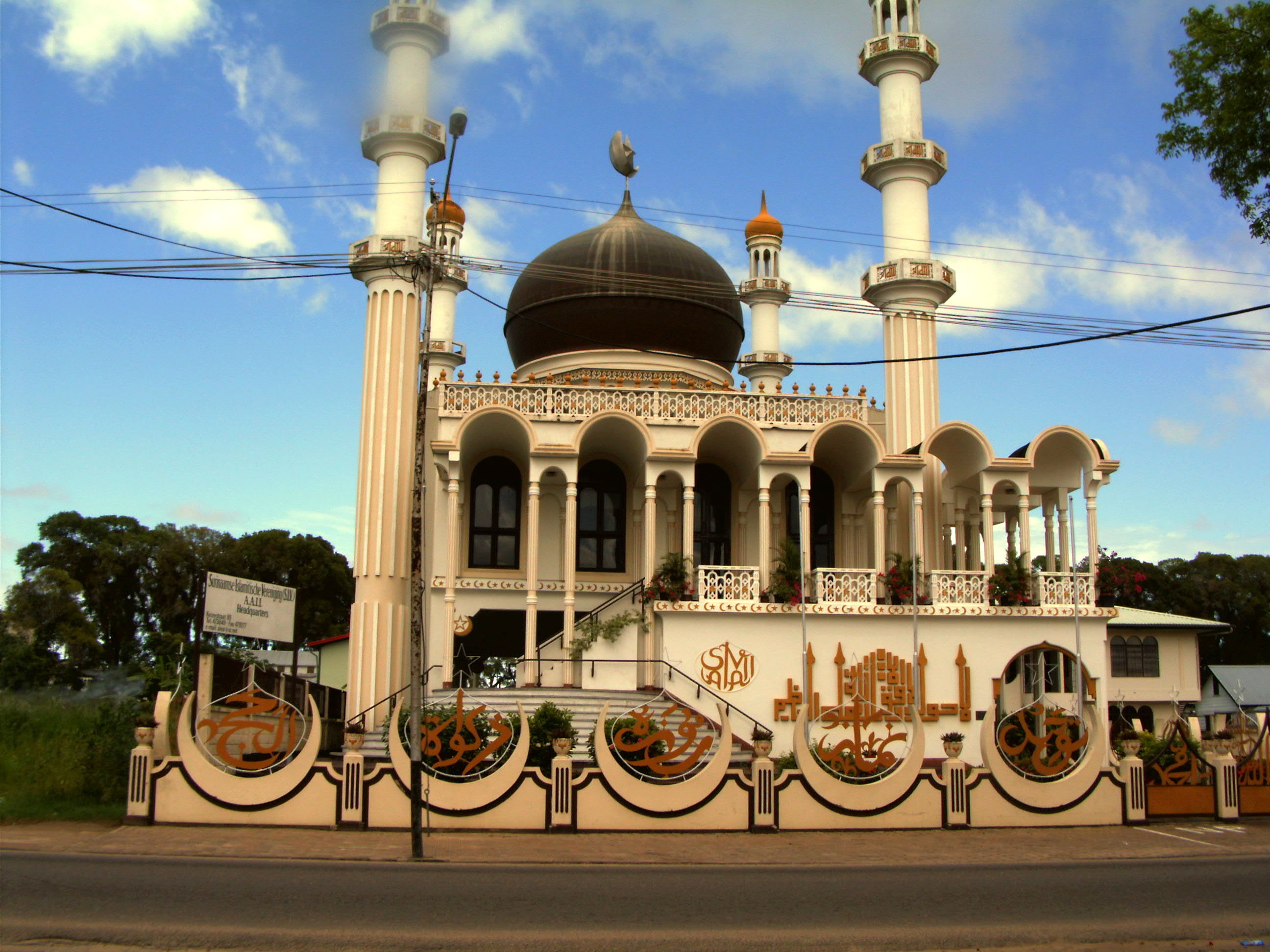 Surinaamse Islamitische Vereniging AAIIL Headquarters